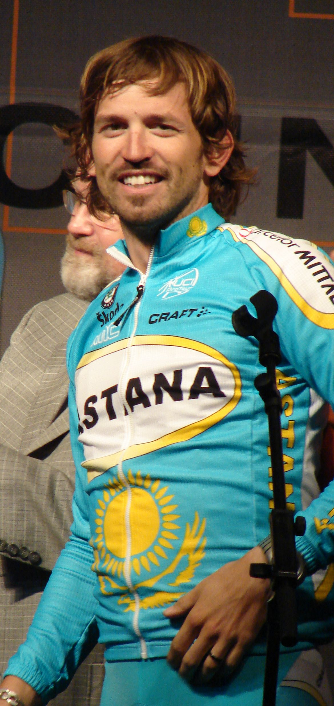 Austrian bicycle racer René Haselbacher during the "Nightrace .07" in Waidhofen an der Ybbs on August 24, 2007.